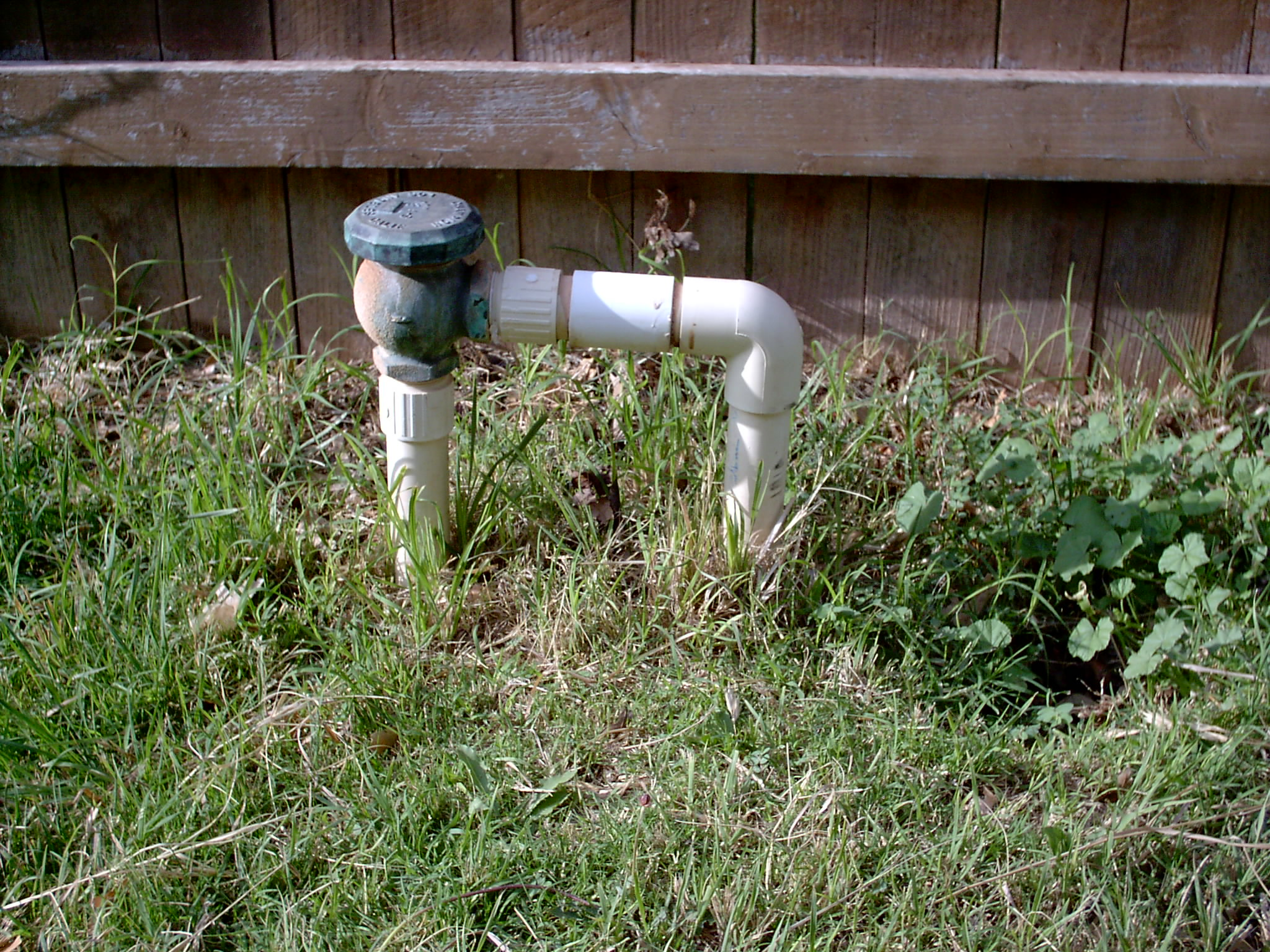 Picture of an old AVB just before I yanked it out and replaced with a double check.